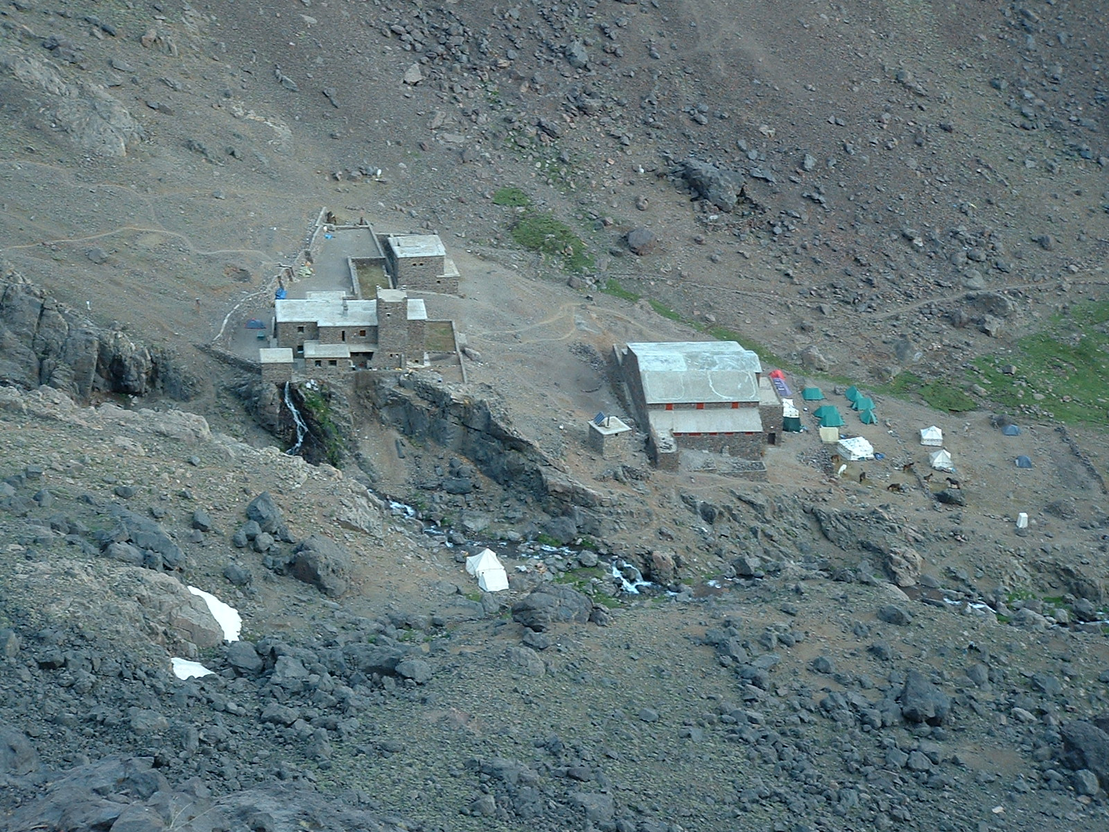 Neltner Refuge and Toubkal Refuge on Mount Toubkal